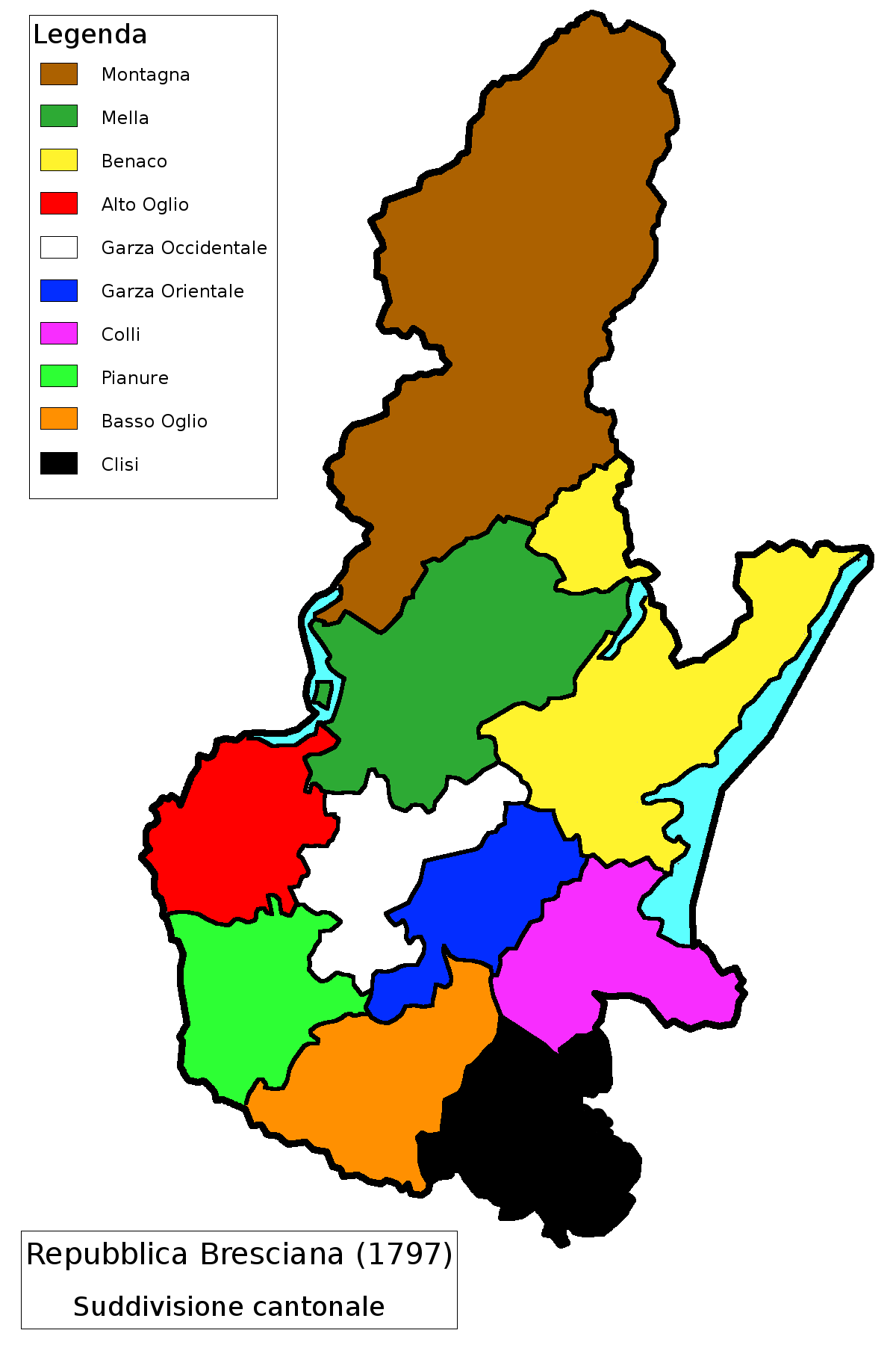 Canton subdivision maps of the Napoleonic Bresciana Republic, also know as Governo Provvisorio Bresciano (1797).